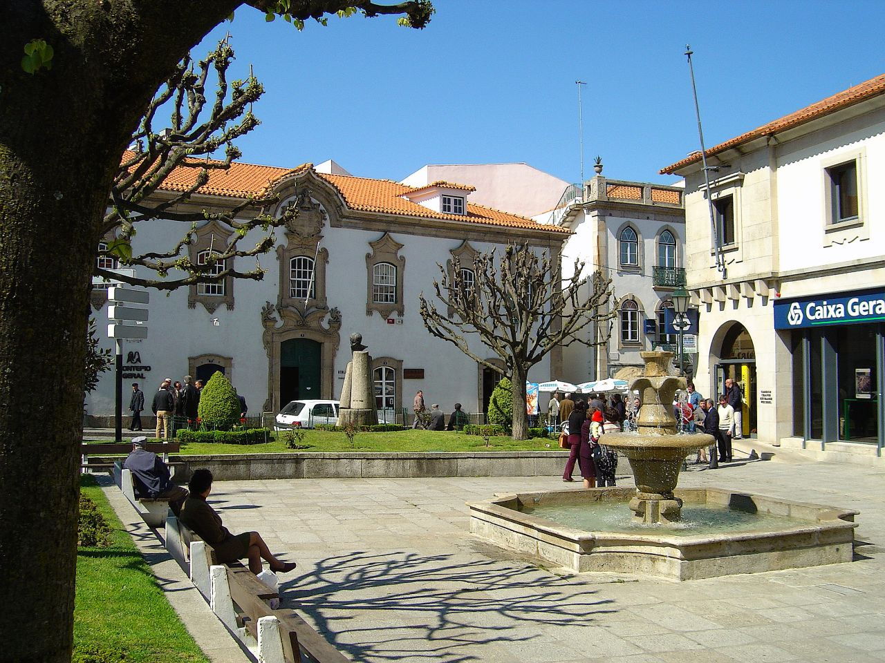 See where this picture was taken. [?]